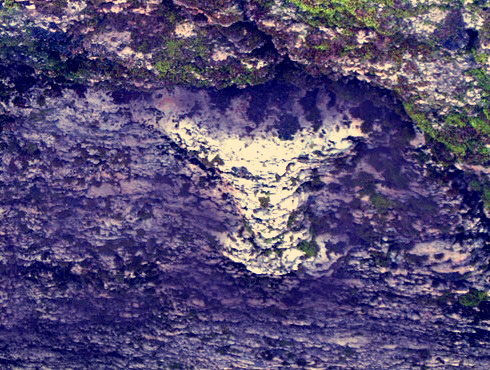 Bulls-head Yaylata BG